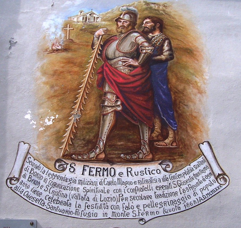 Paint with legend of Saints Firmus and Rusticus. Borno, Val Camonica.